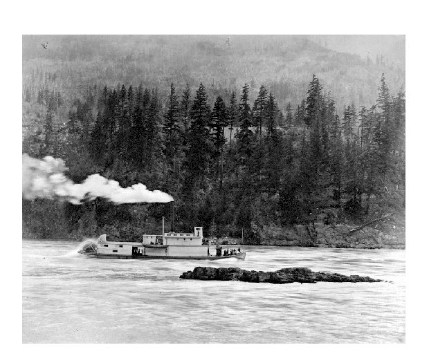 Photo taken 1883 Photograper Unknown BC Archives #A-00144 [1]